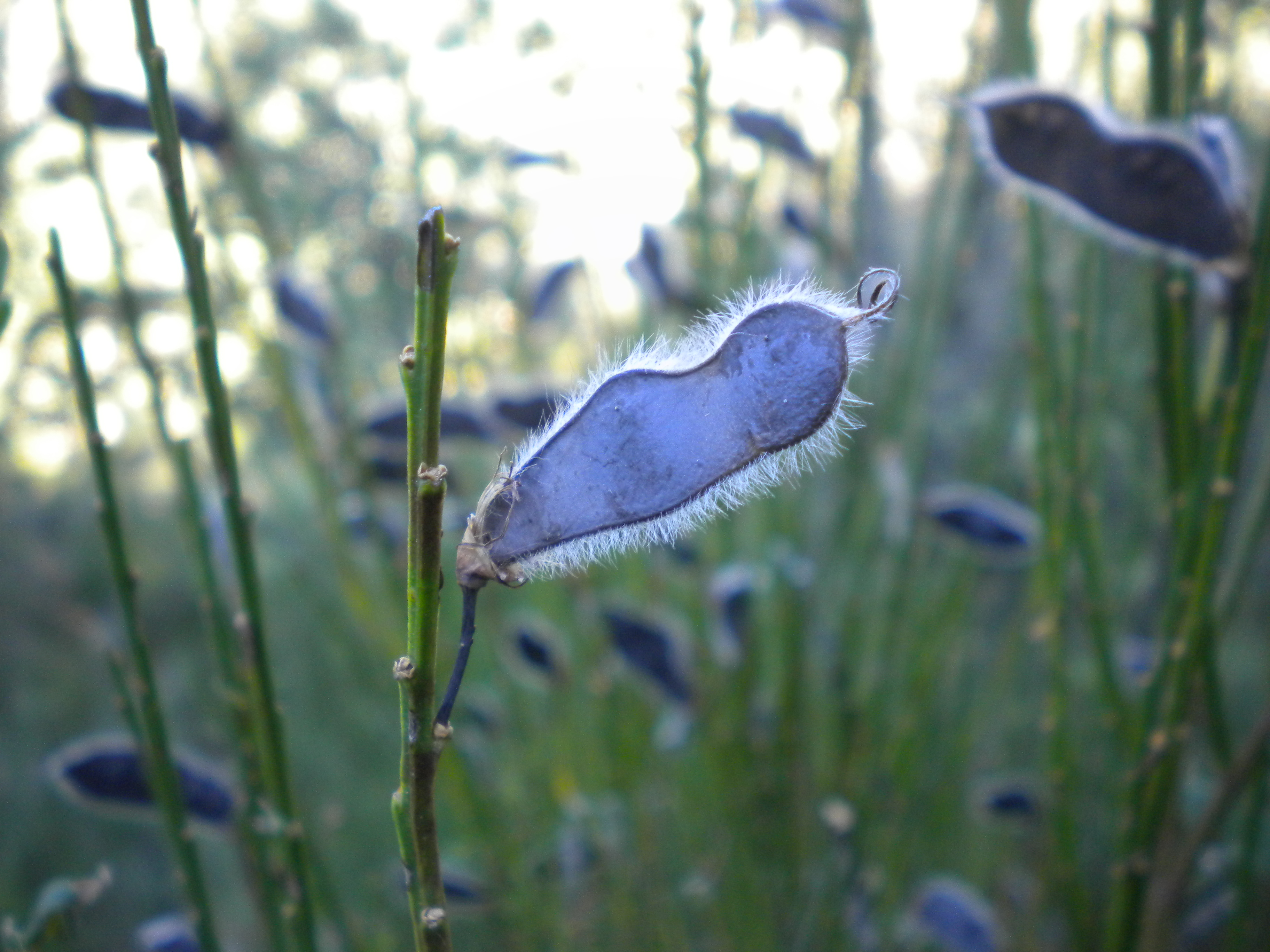 Cytisus scoparius (common broom) in "Hayedo de Montejo" (Community of Madrid, Spain). Detail of the legume. This is a photography of a Special Area of Conservation in Spain with the ID: ES3110002. Natura2000 entry, EEA entry